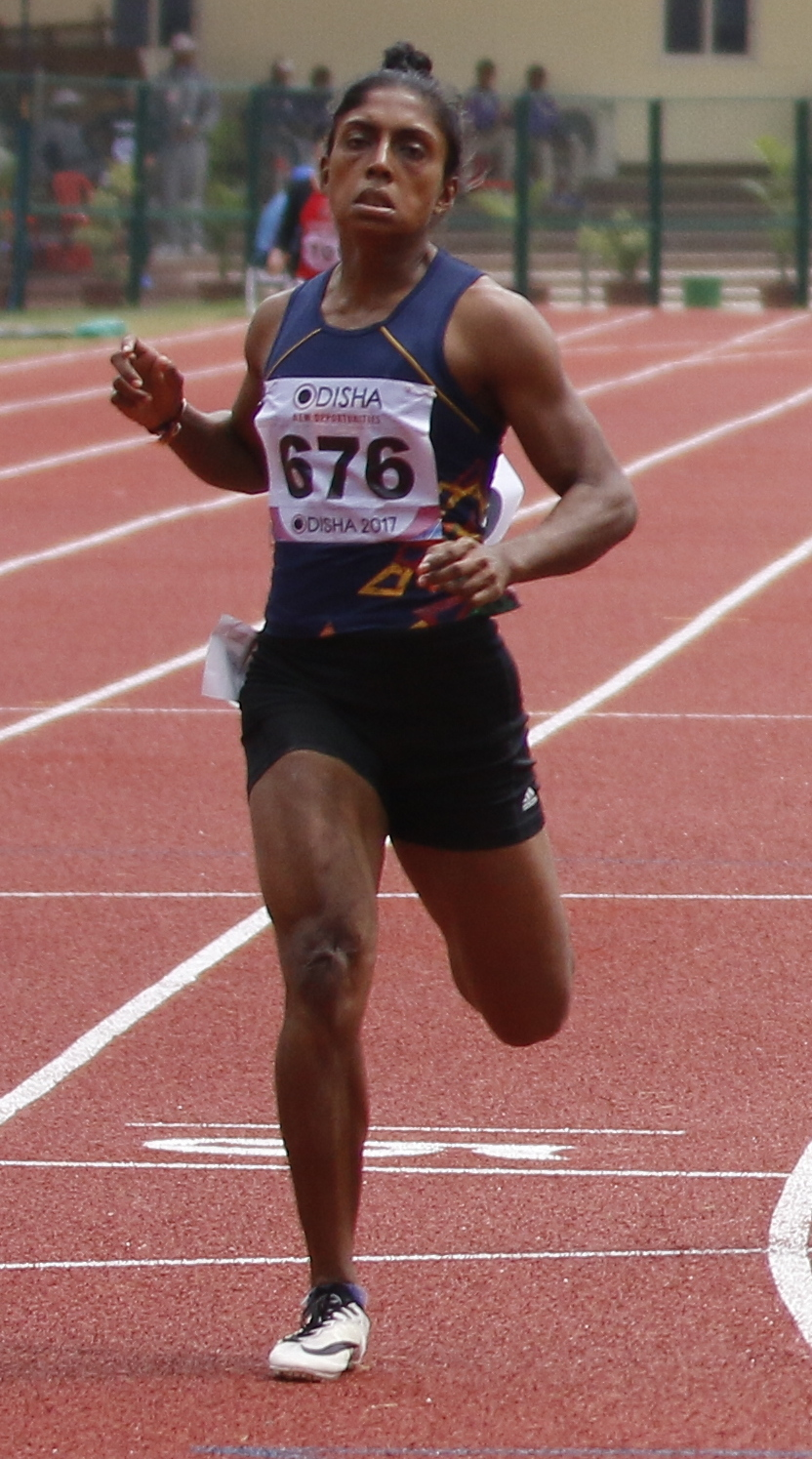 Athletes during 22nd Asian Athletics Championships in Bhubaneswar.